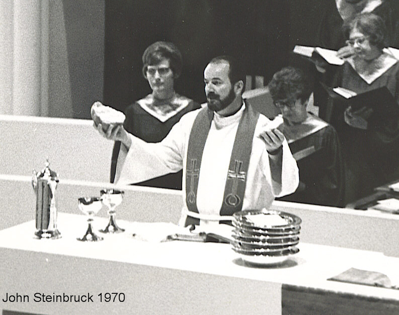 Rev. John Steinbruck at Luther Place Memorial Church 1970